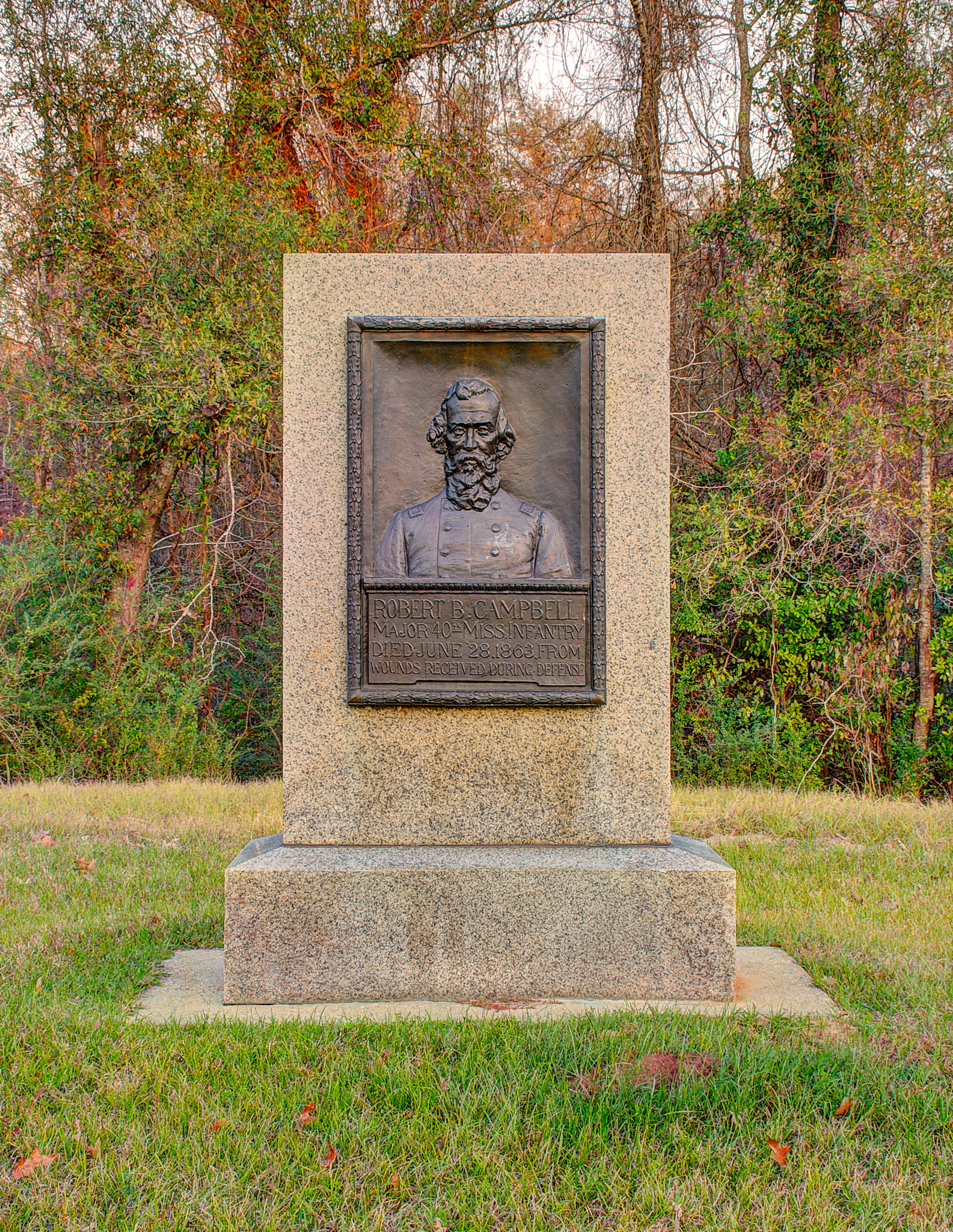 bronze relief portrait of Maj. Robert B. Campbell